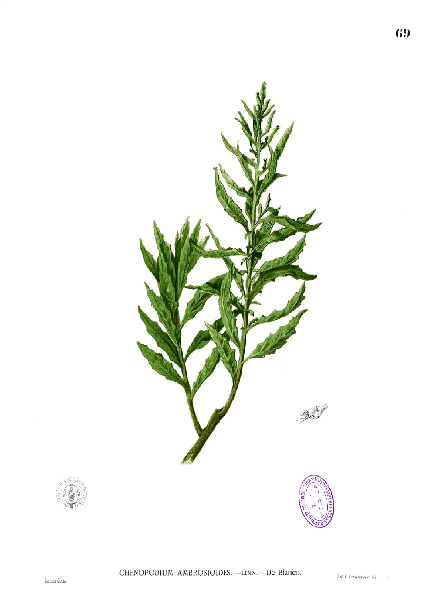 Plate from book, showing Dysphania ambrosioides (L.) Mosyakin & Clemants (Syn.: Chenopodium ambrosioides L.)